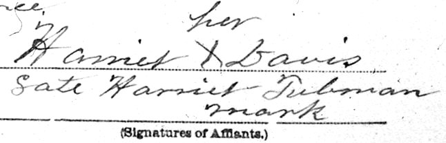 Signature of general affidavit of Harriet Tubman relating to her claim for a pension, ca. 1898